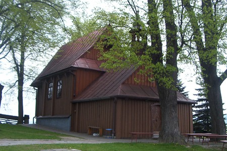 Saint Mary church on Just Mountain in Tęgoborze, Poland